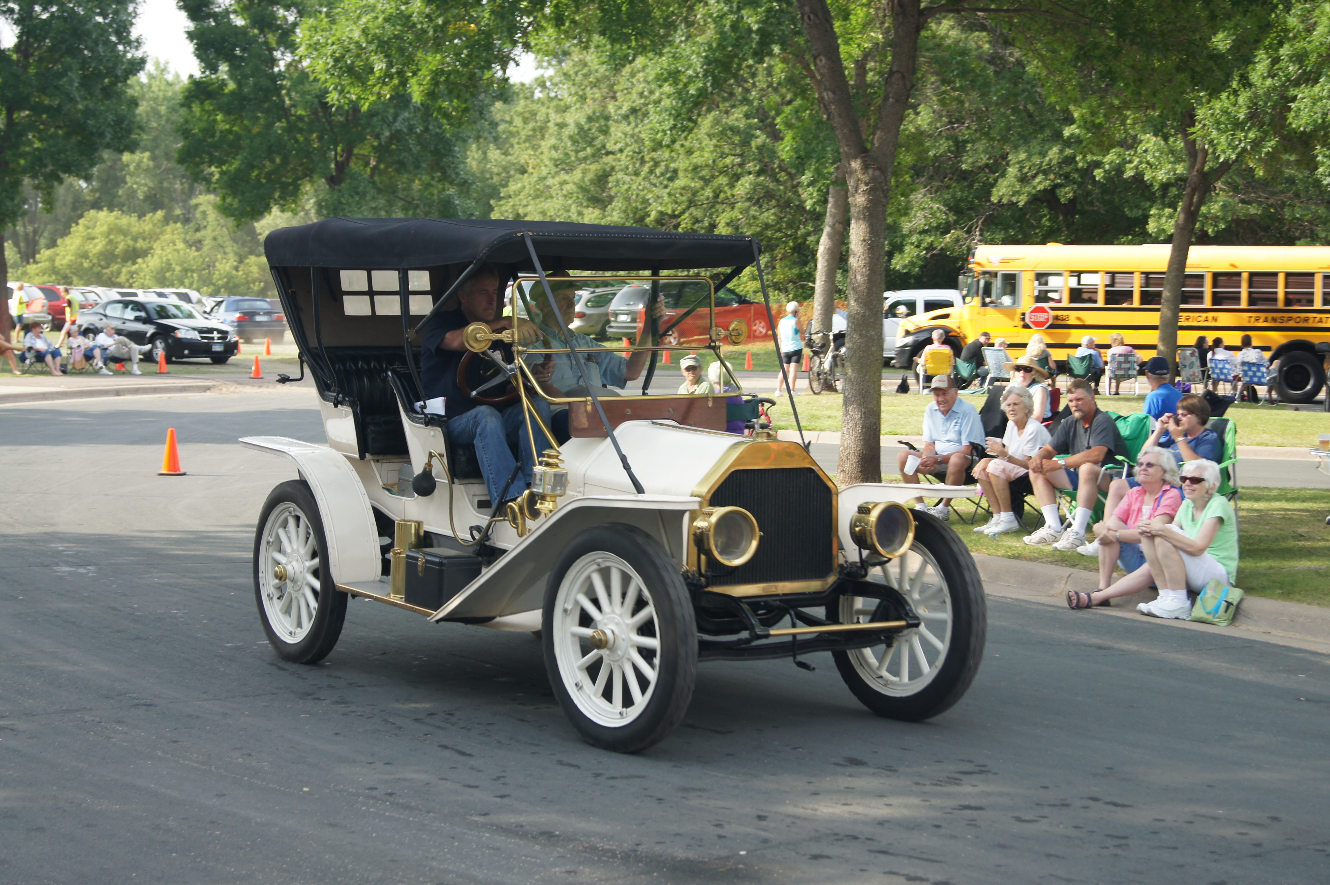 26th Annual New London to New Brighton Antique Car Run August 11, 2012.